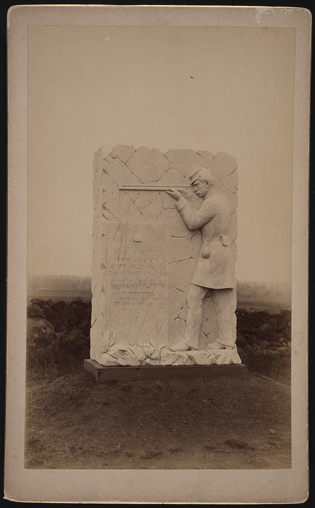 Title: 1st Co. Andrew Sharp Shooters on Round Top Avenue / Mumper & Co., photo. artists, Baltimore St., Gettysburg, Pa. Abstract/medium: 1 photograph : albumen print on card mount ; sheet 15 x 10 cm, mount 17 x 11 cm (boudoir card format)